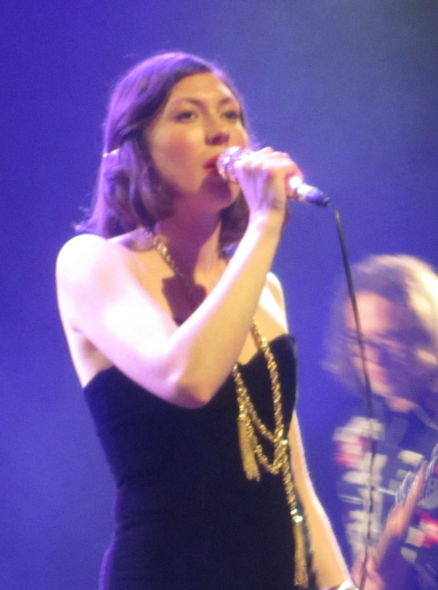 Alela Diane in concert at la Laiterie, Strasbourg, May 8 2011